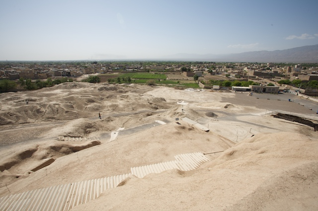 Sialk Hills archaeological site from 5500BCE, Kashan, Iran